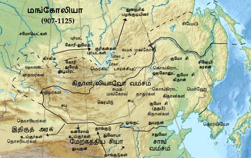 மங்கோலியா 907-1125